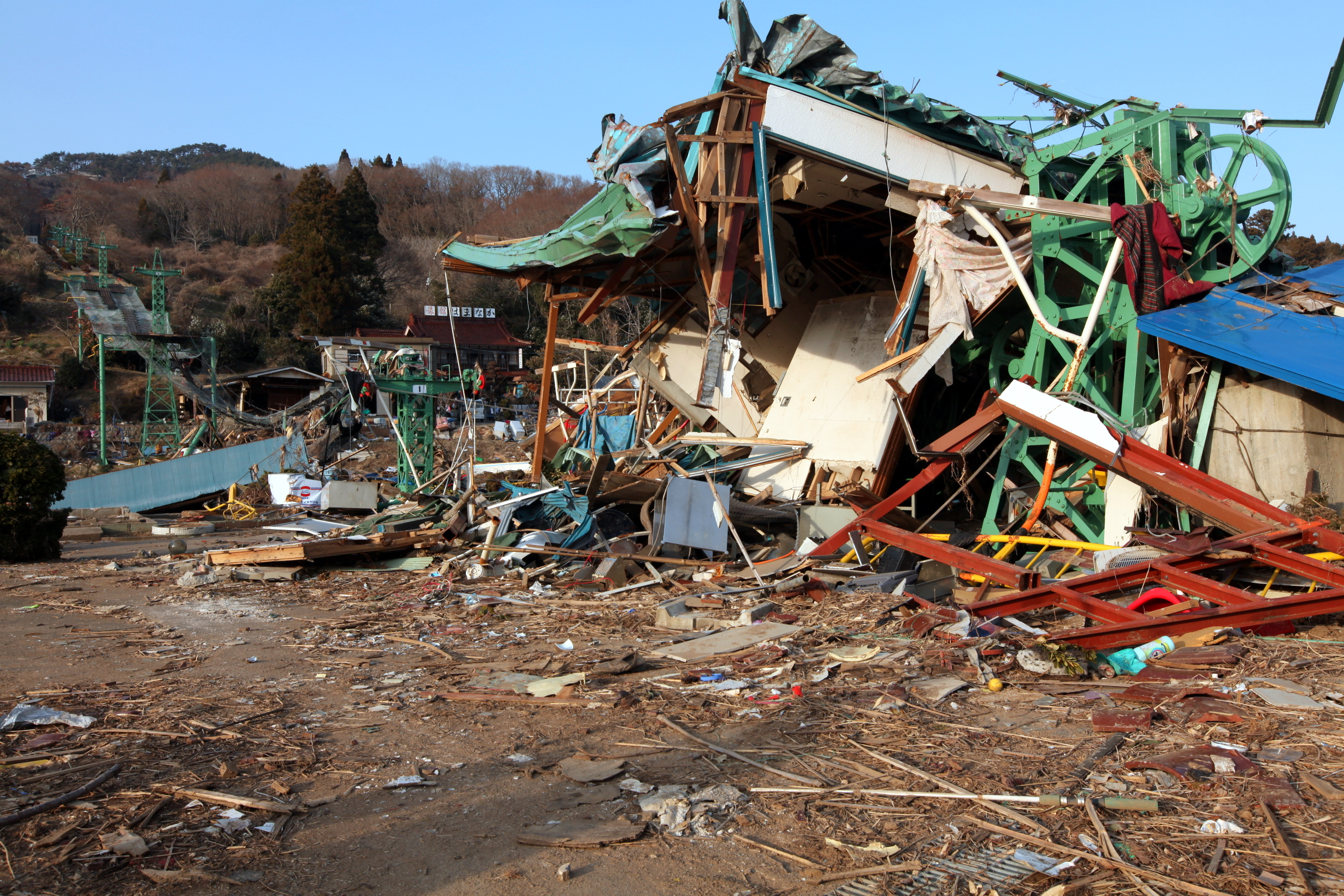 A damaged ski-lift[1] station at Uranohama Port, Ōshima Island in Kesennuma, Miyagi, Japan, April 1, 2011, in the aftermath of the earthquake and subsequent tsunami that struck the region. The 31st MEU's involvement is part of a larger U.S. government response, after a 8.9 earthquake and subsequent tsunami struck Japan causing widespread damage. 〔The text has been revised.〕 ↑ Kesennuma Municipal Kameyama Lift; 亀山リフト